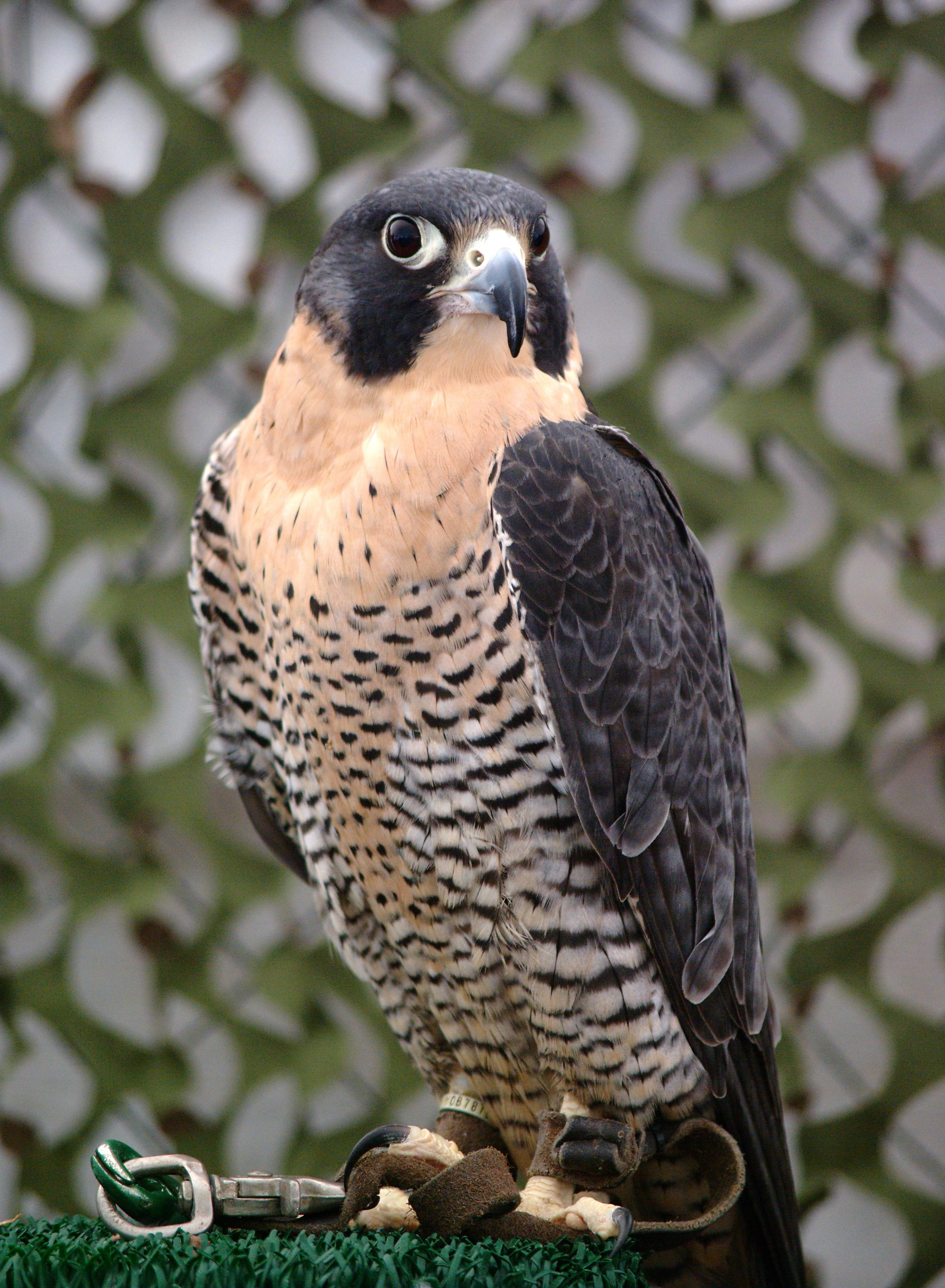 A Peregrine Falcon (Falco peregrinus) at the bird show at New York State Fair.